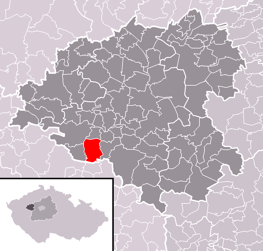 Location of Šípy municipality within Rakovník District and (identical) administrative area of Rakovník as a Municipality with Extended Competence.